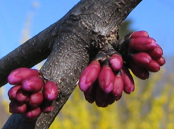 Cercis canadensis flower buds, about to bloom.